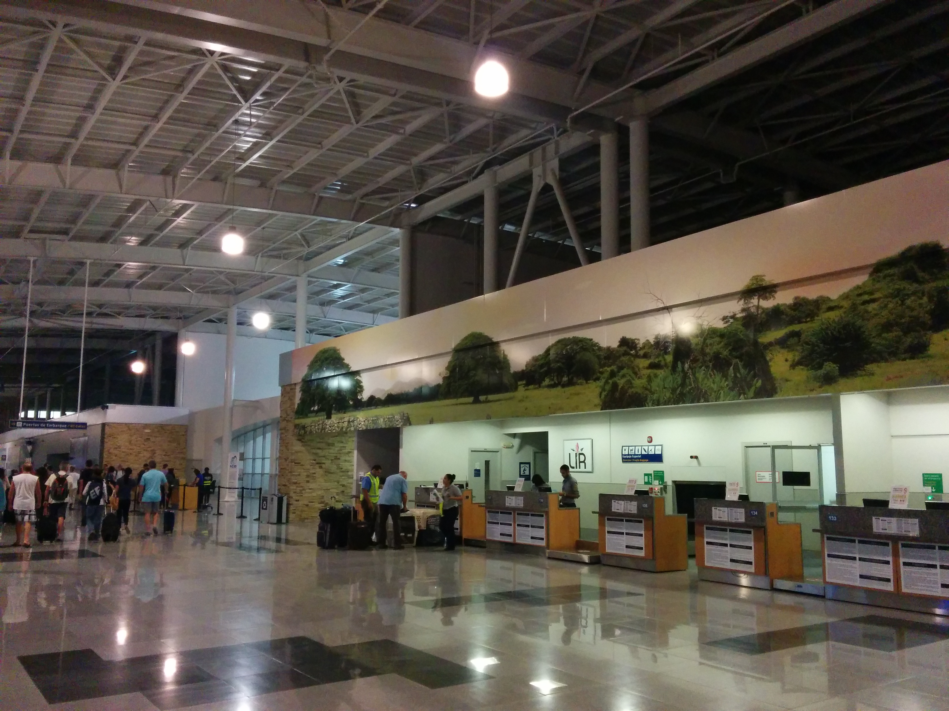 Liberia Airport Main Building Checkin Area. Interior of the main building showing the passenger checkin area.